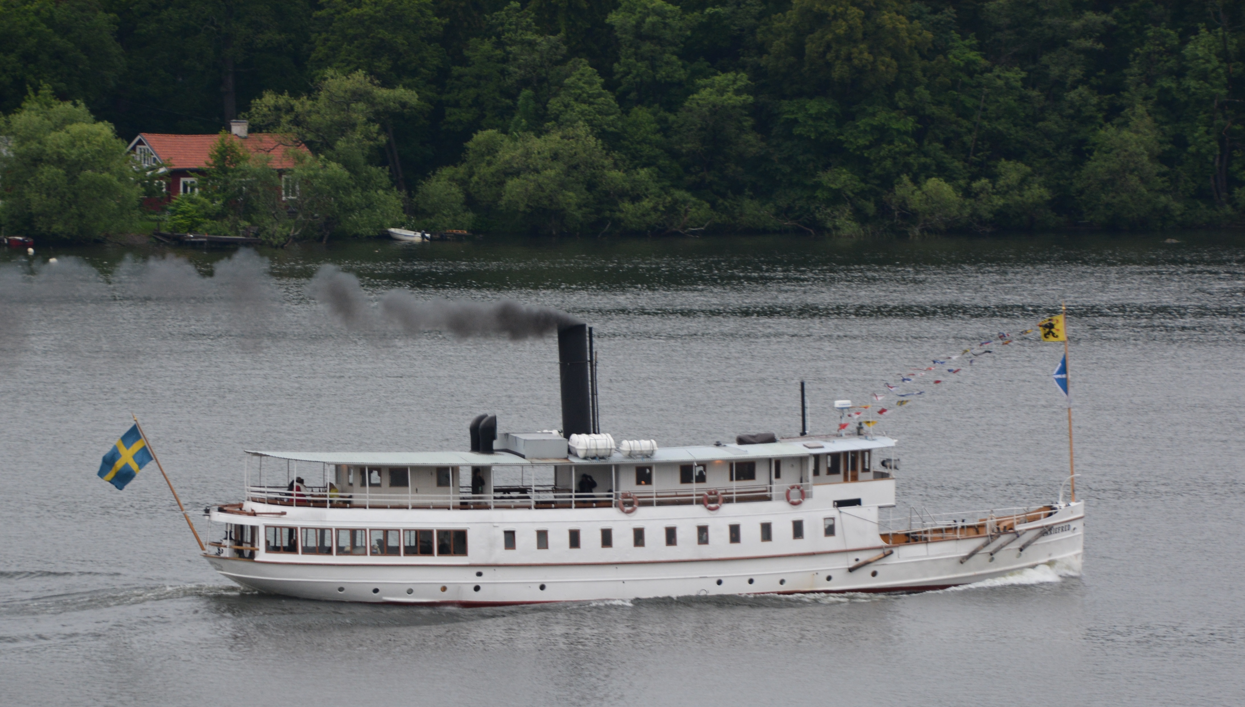 S/S Mariefred utanför Björnholmen väster om Stockholm